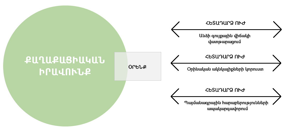 Ex post facto in civil law